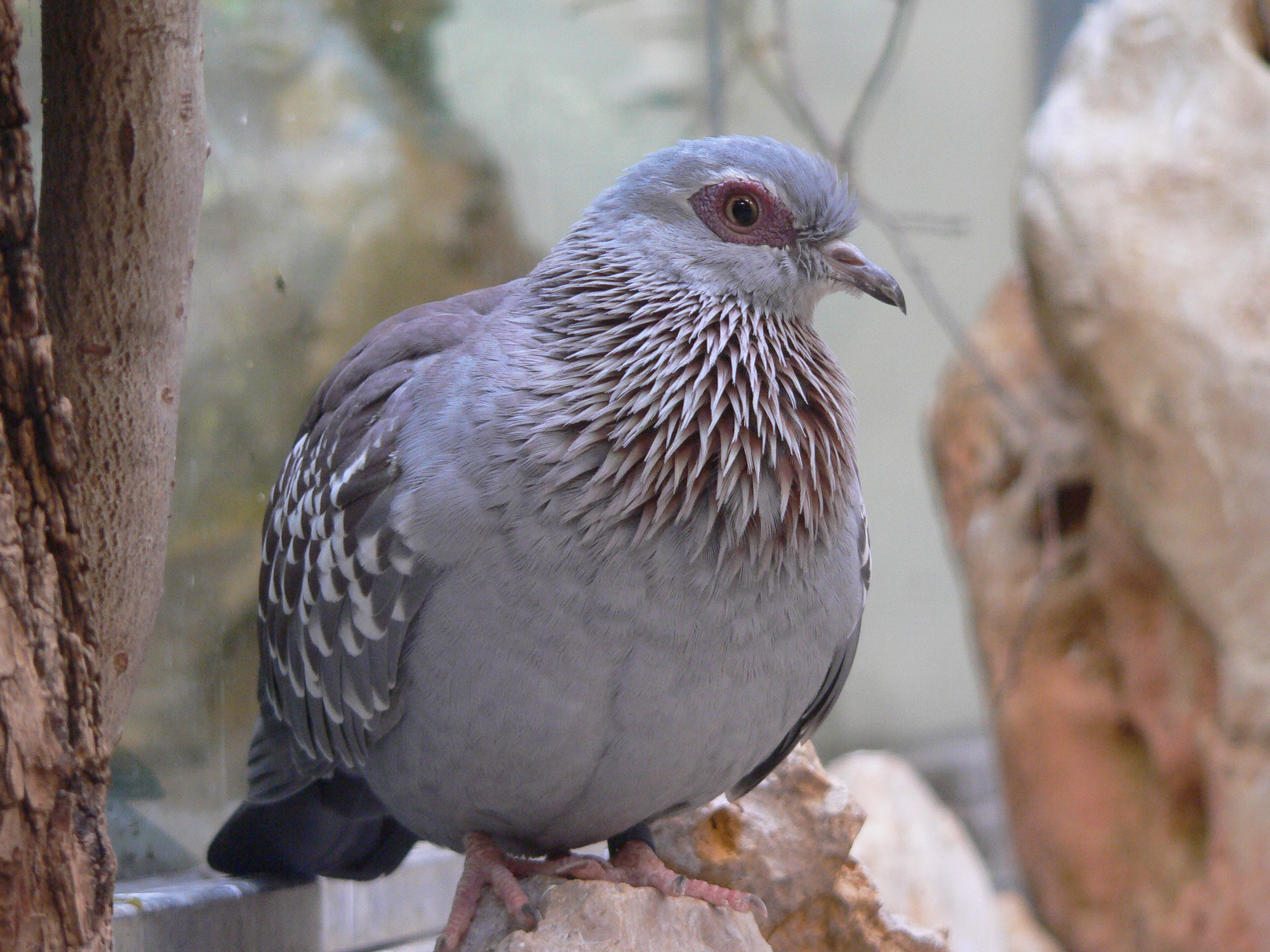 Speckled pigeon